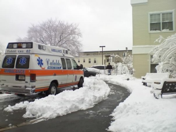 Cataldo Ambulance 62 on-scene in Winter 2008